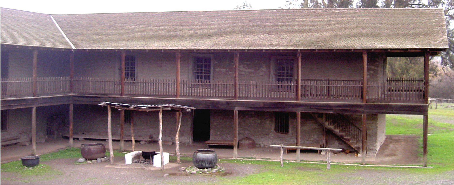 Petaluma Adobe north wing